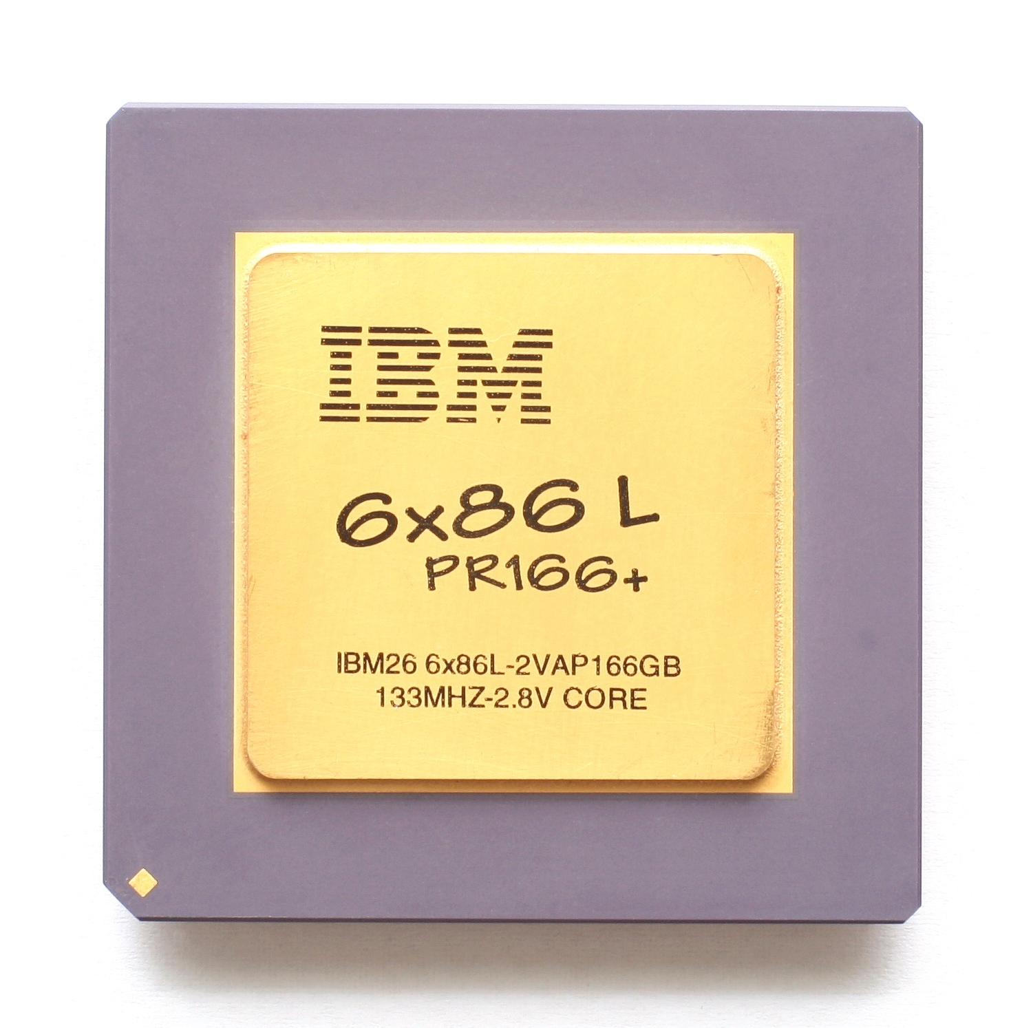 CPU IBM 6x86L P166+